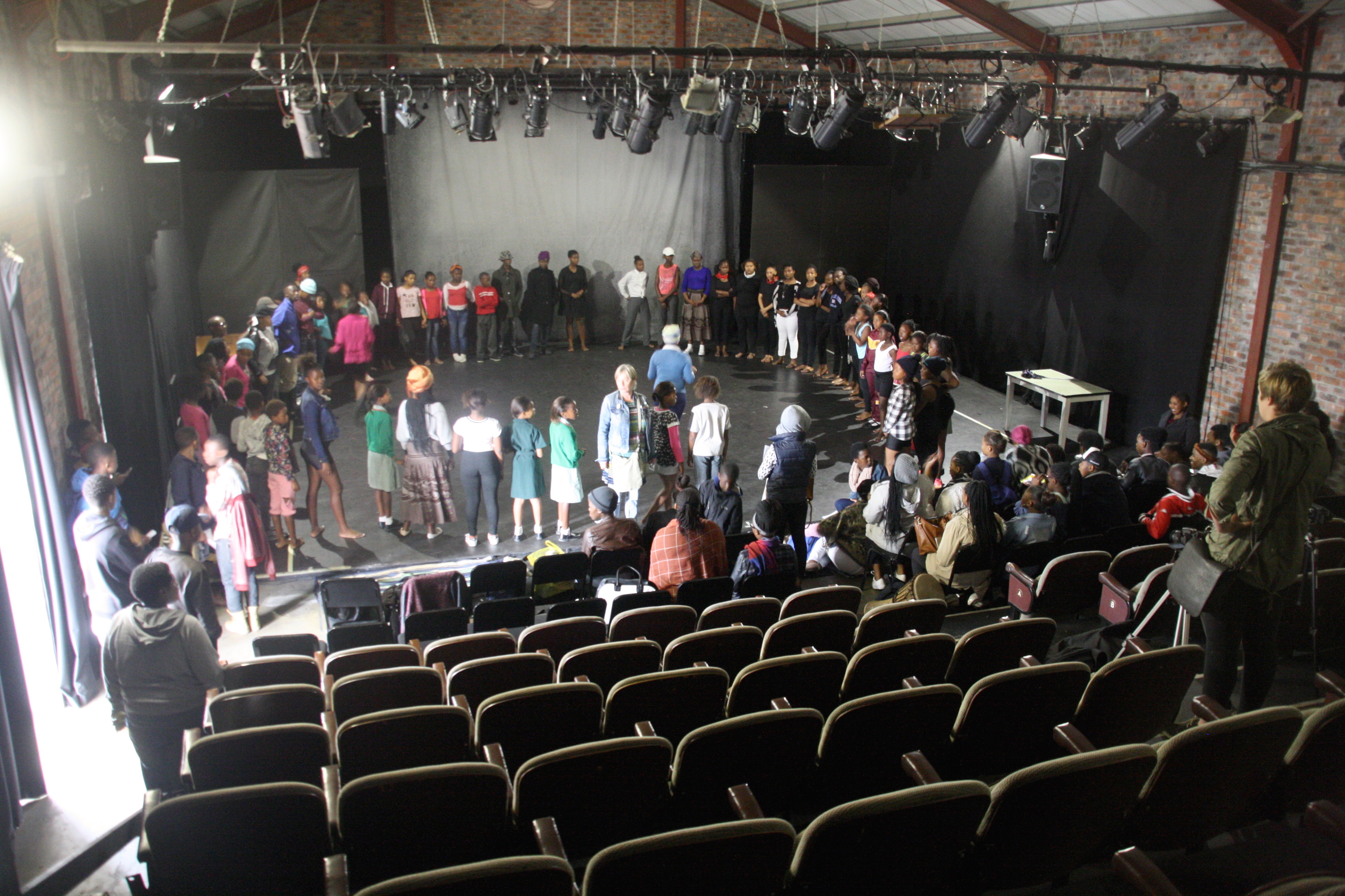 A picture of the Magnet Theatre stage and auditorium during the Culture Gangs Showcase on 22 Oct, 2016. Observatory, Cape Town, South Africa